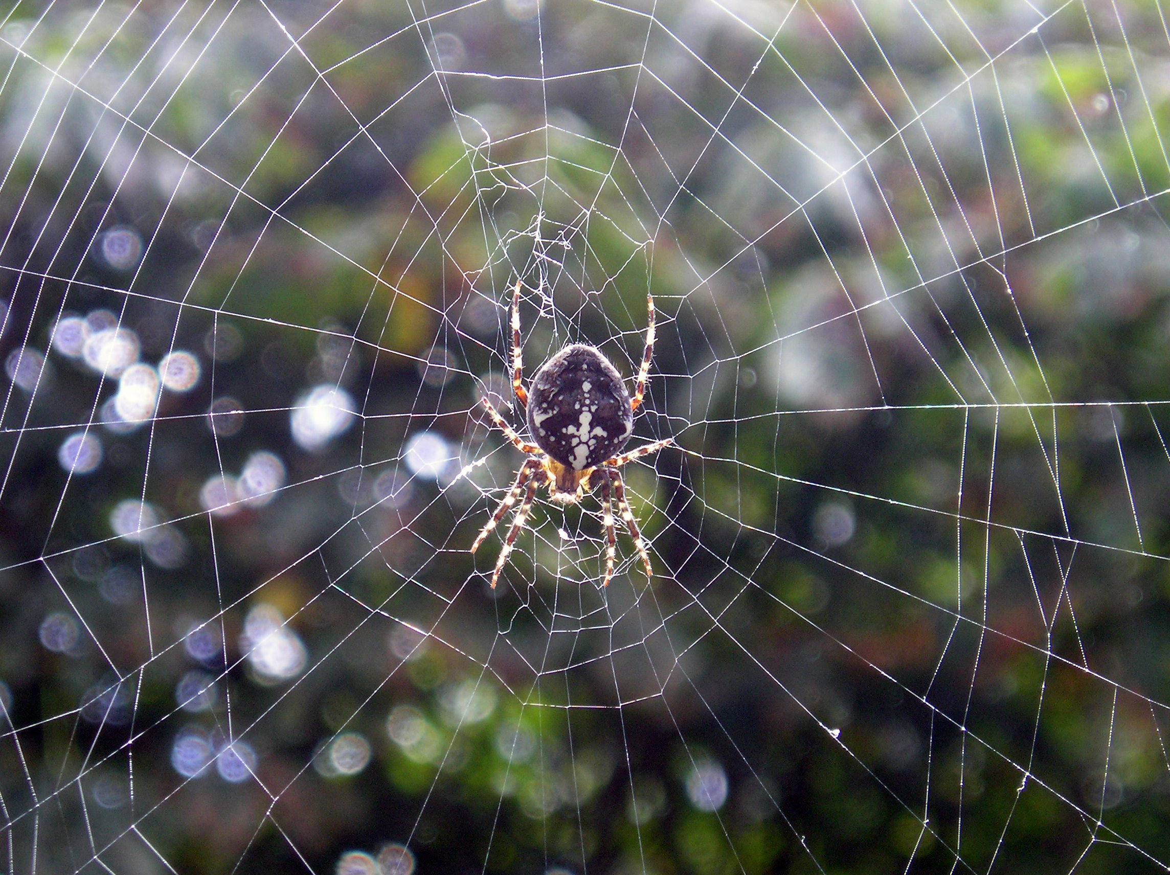 European garden spider